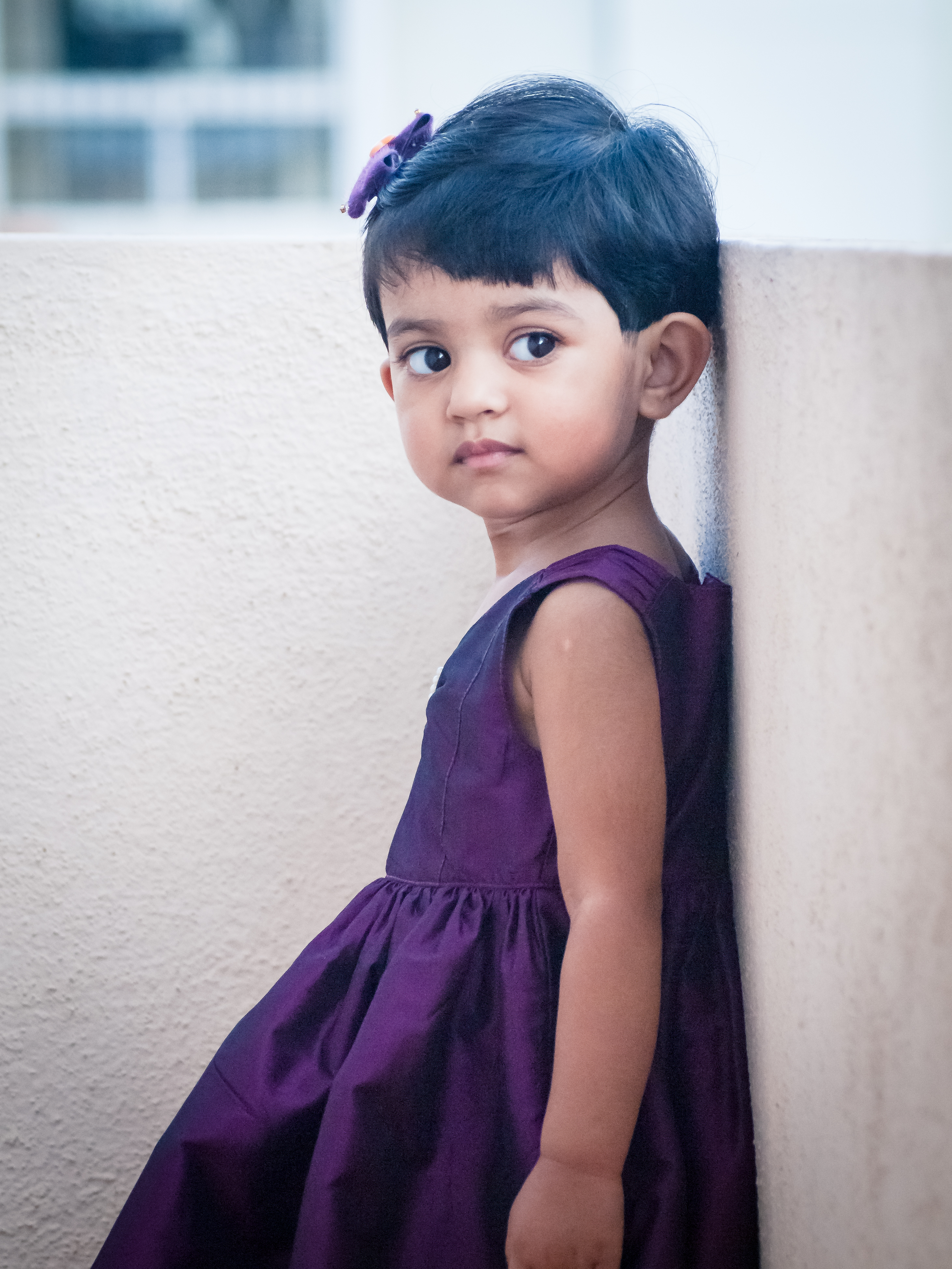 Girl, Child, Life, Culture, Dress of India At Durga Puja, India 2013